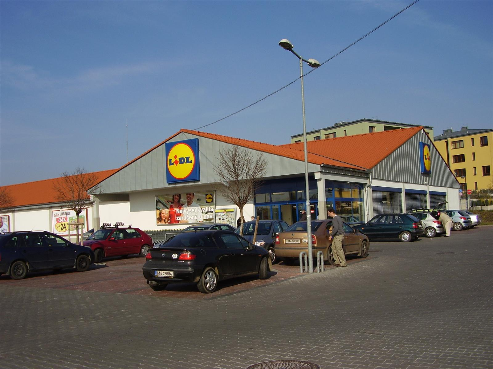 Supermarket Lidl in Řepy in Prague